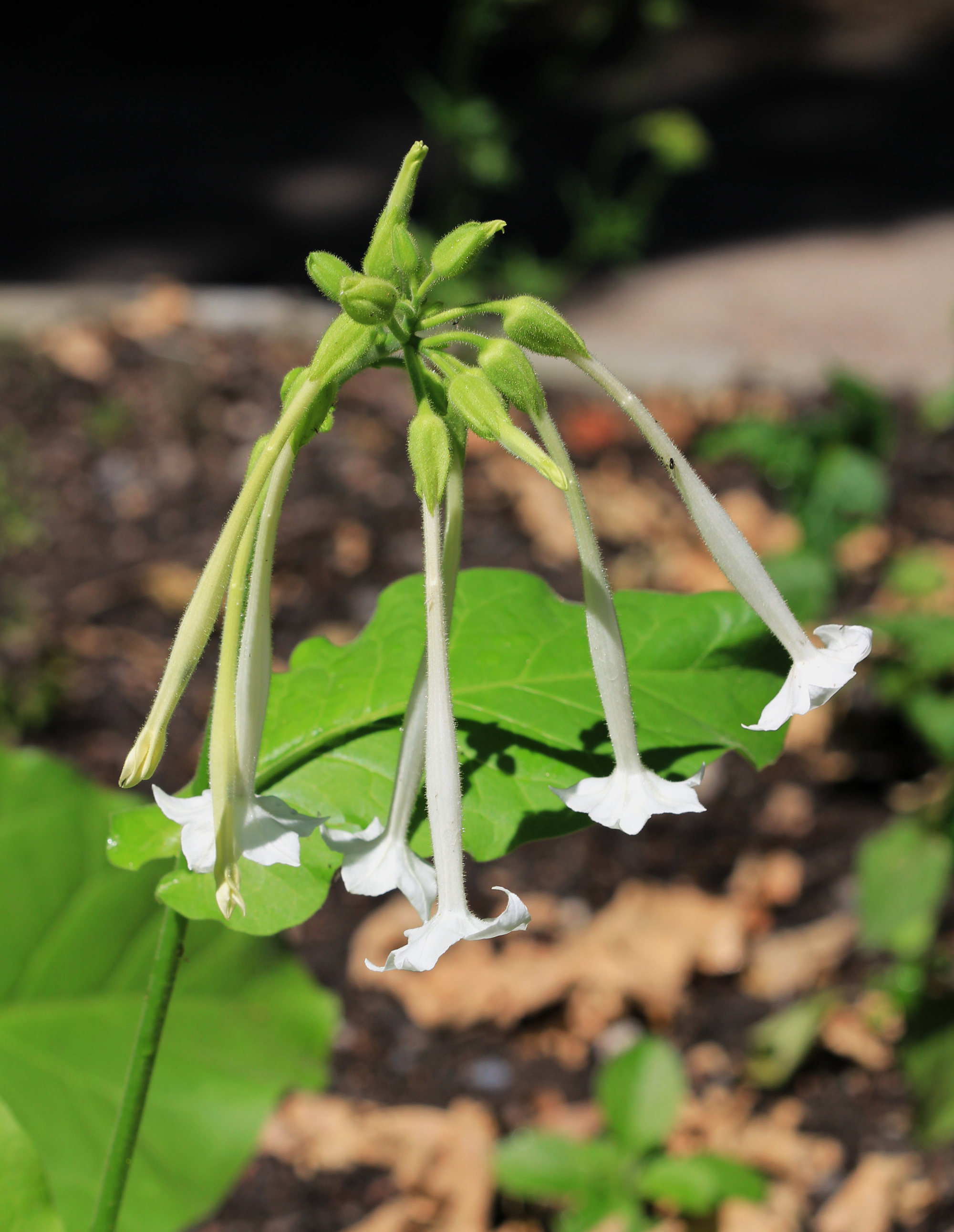 Flowers of plant Nicotiana sylvestris from the Botanical Gardens of Charles University, Prague, Czech Republic